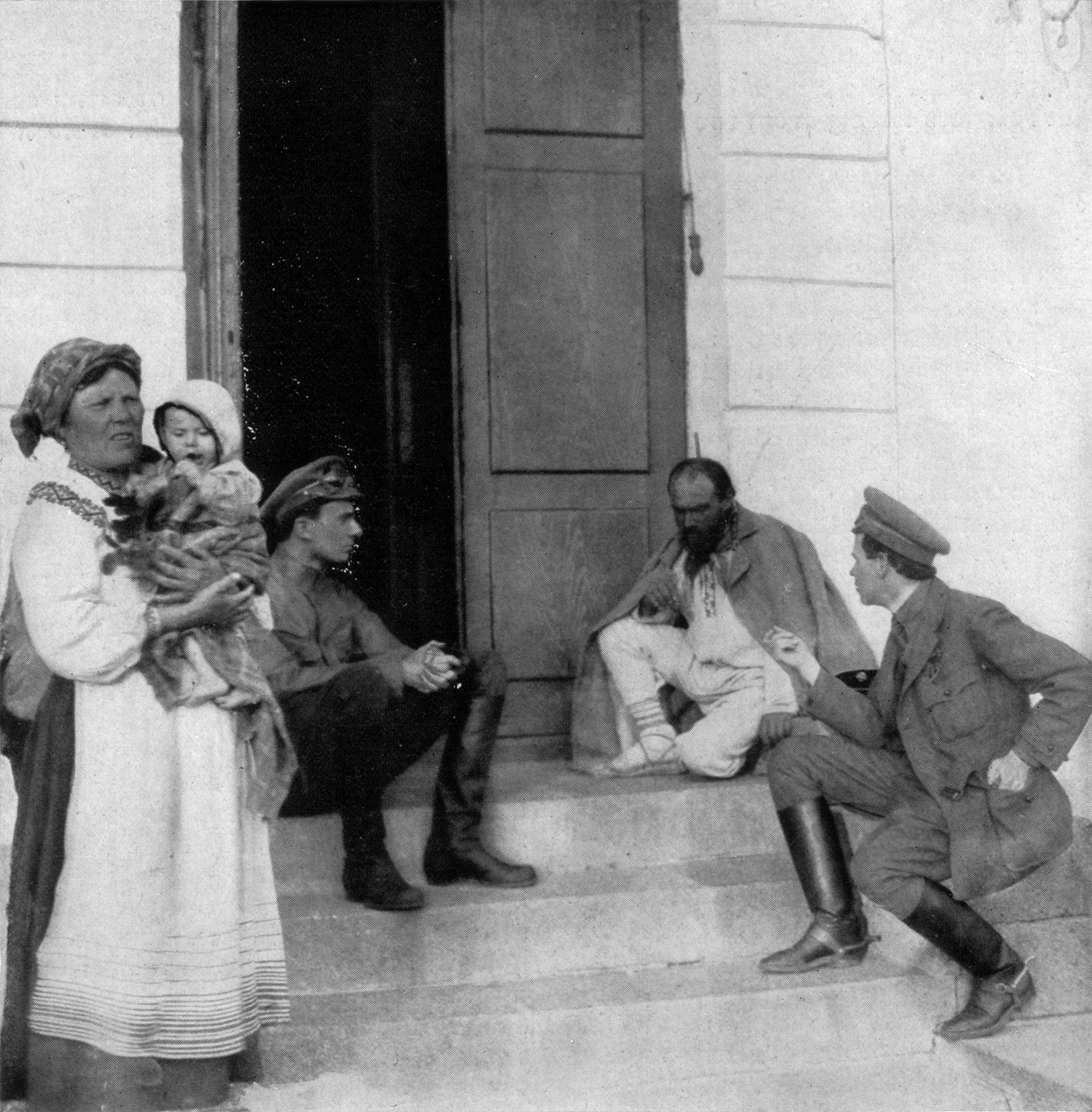 TYPICAL REFUGEES FROM THE BATTLE ZONE RELATING THEIR EXPERIENCES.